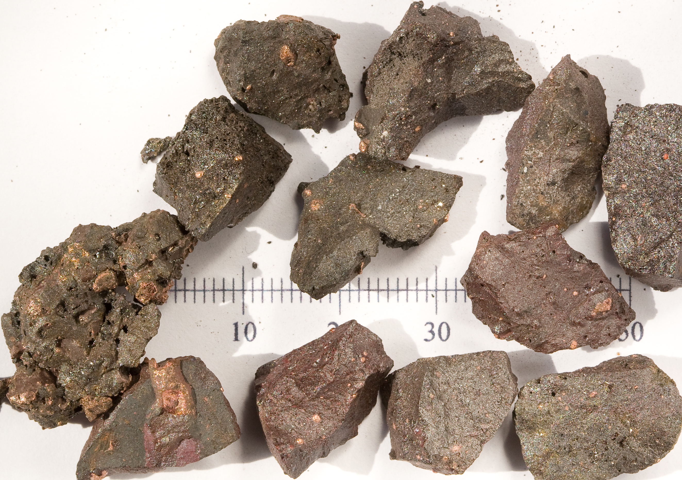 Slag with large amount of copper inclusions